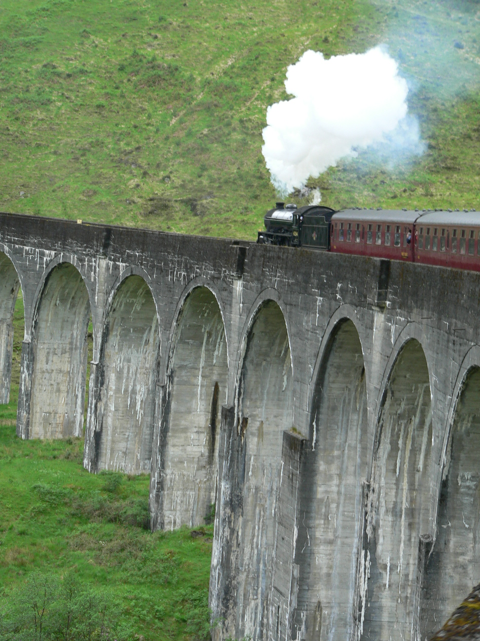 The Glenfinnan Viaduct, used in at least one of the Harry Potter films, seen from the last carriage of The Jacobite steam service on the West Highland Line from Fort William to Mallaig, hauled by LNER B1 4-6-0 locomotive 61264.